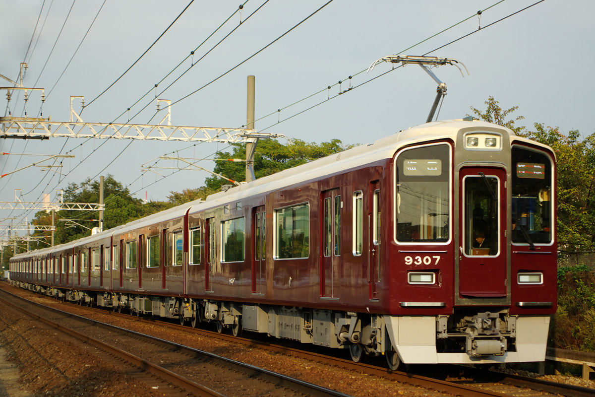 Hankyu Railway 9300 Series